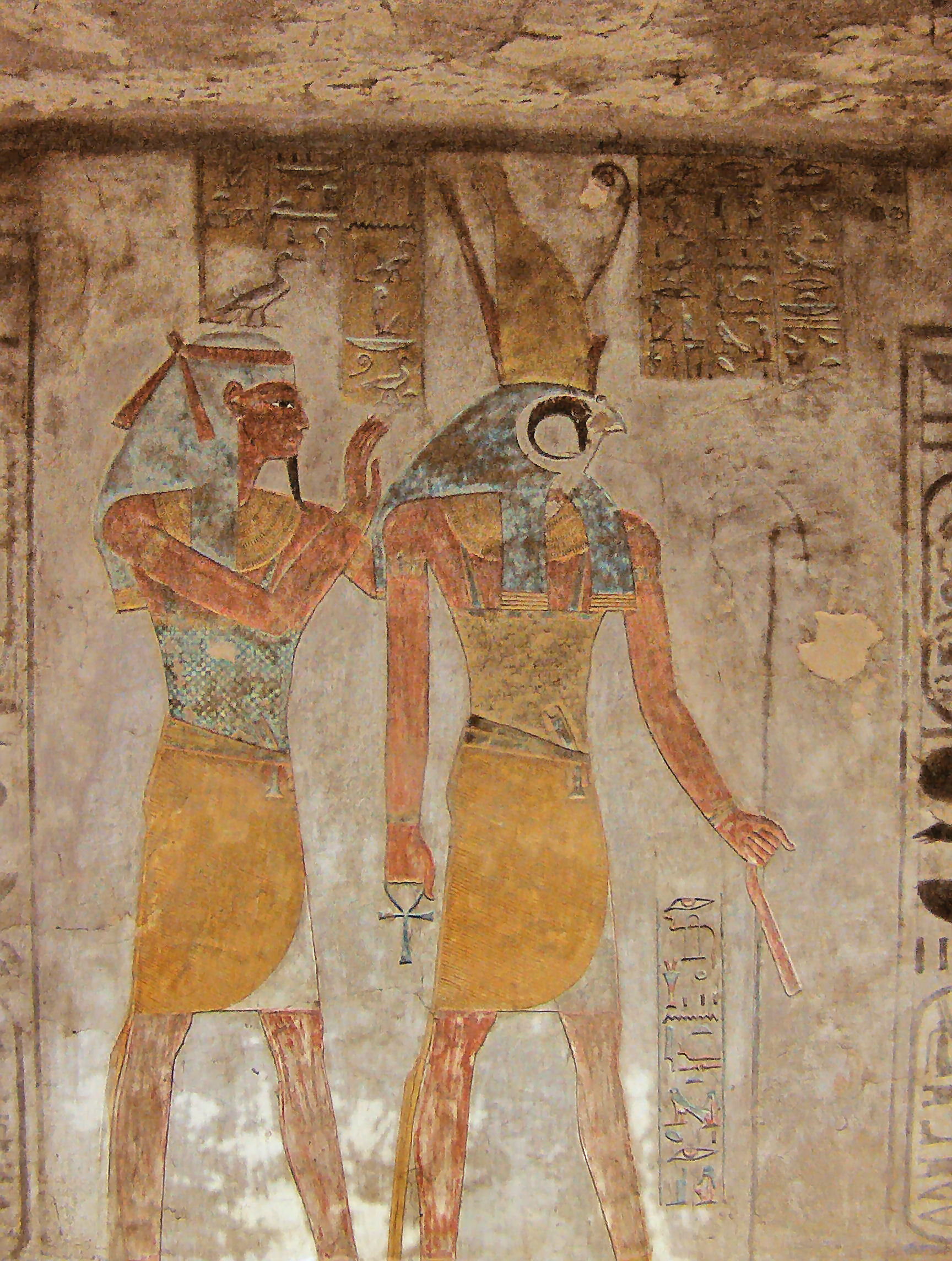 A fine relief of the Egyptian gods Horus and Geb from tomb KV14 in the Valley of the Kings. KV14 was the tomb of both pharaoh Twosret of the 19th dynasty and Setnakht, her successor, who founded the 20th dynasty. When Setnakhte came to power, he usurped Twosret's pre-existing tomb for himself and arranged to have all images of Twosret erased. Setnakhte had himself solely represented in KV14. The royal cartouche of Setnakhte can be seen at the right hand side of the photo.